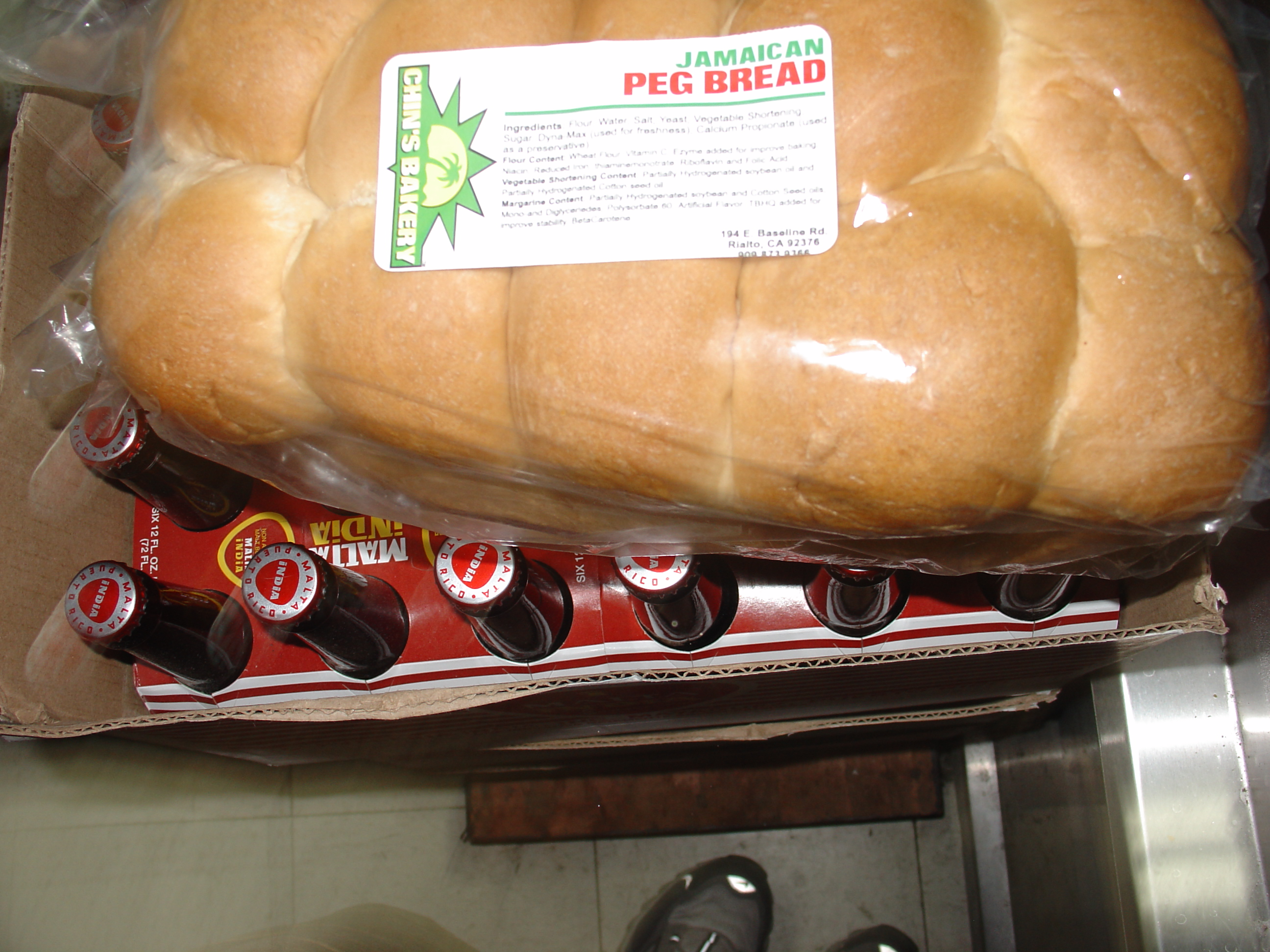 Jamaican peg bread from a Los Angeles Market (2009).